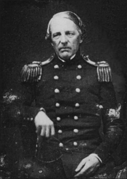 photo of Samuel Cooper (1798–1876)